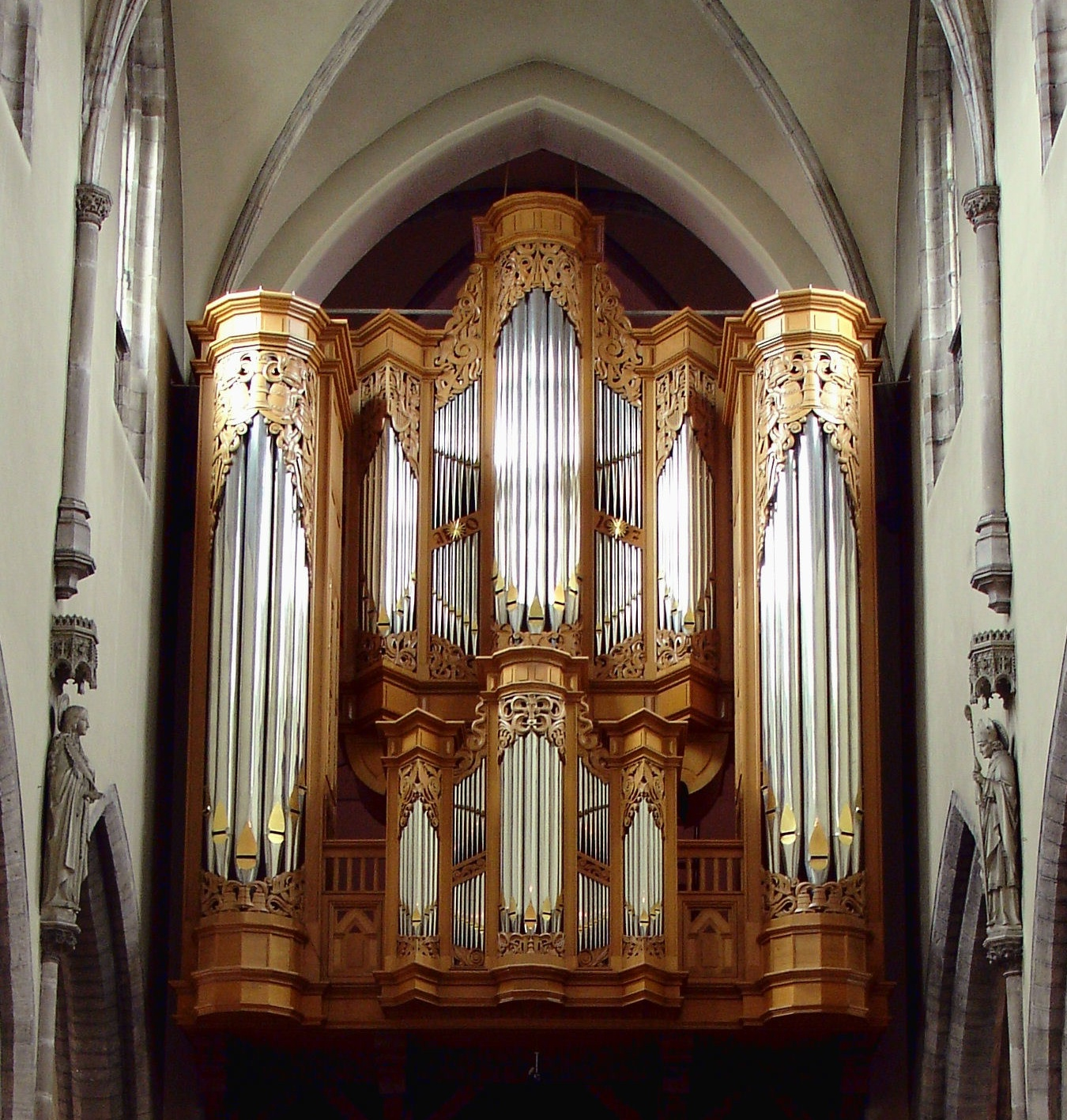 own work